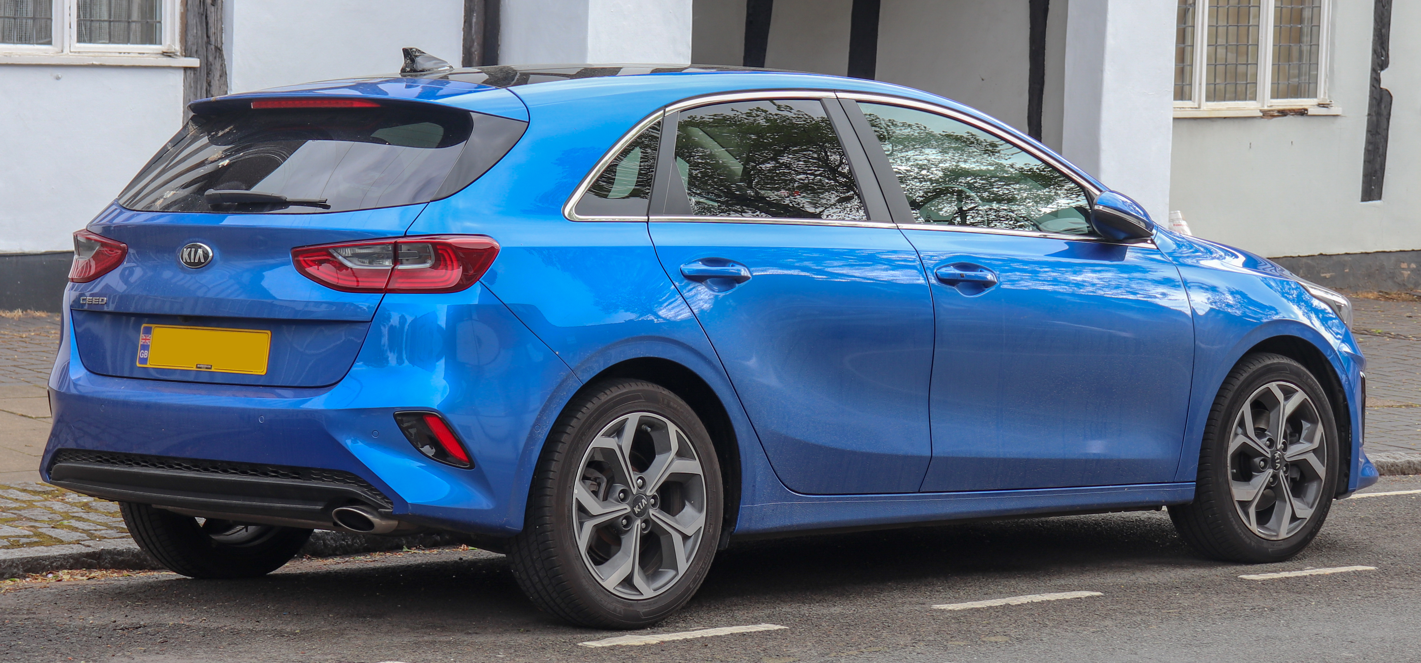 2018 Kia Ceed First Edition 1.4 Rear Taken in Warwick